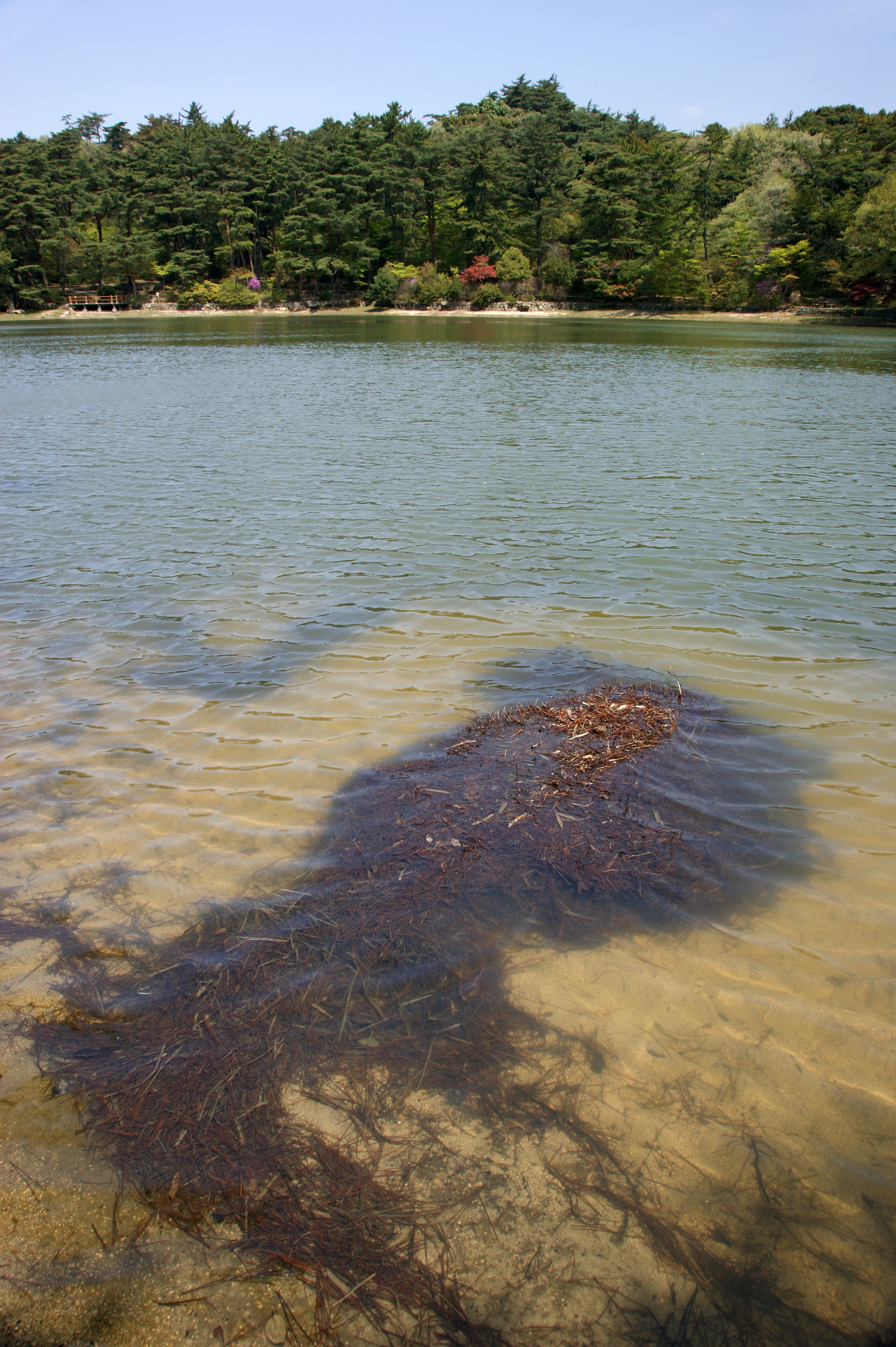 Futatabi Park in Kobe, Hyogo prefecture, Japan